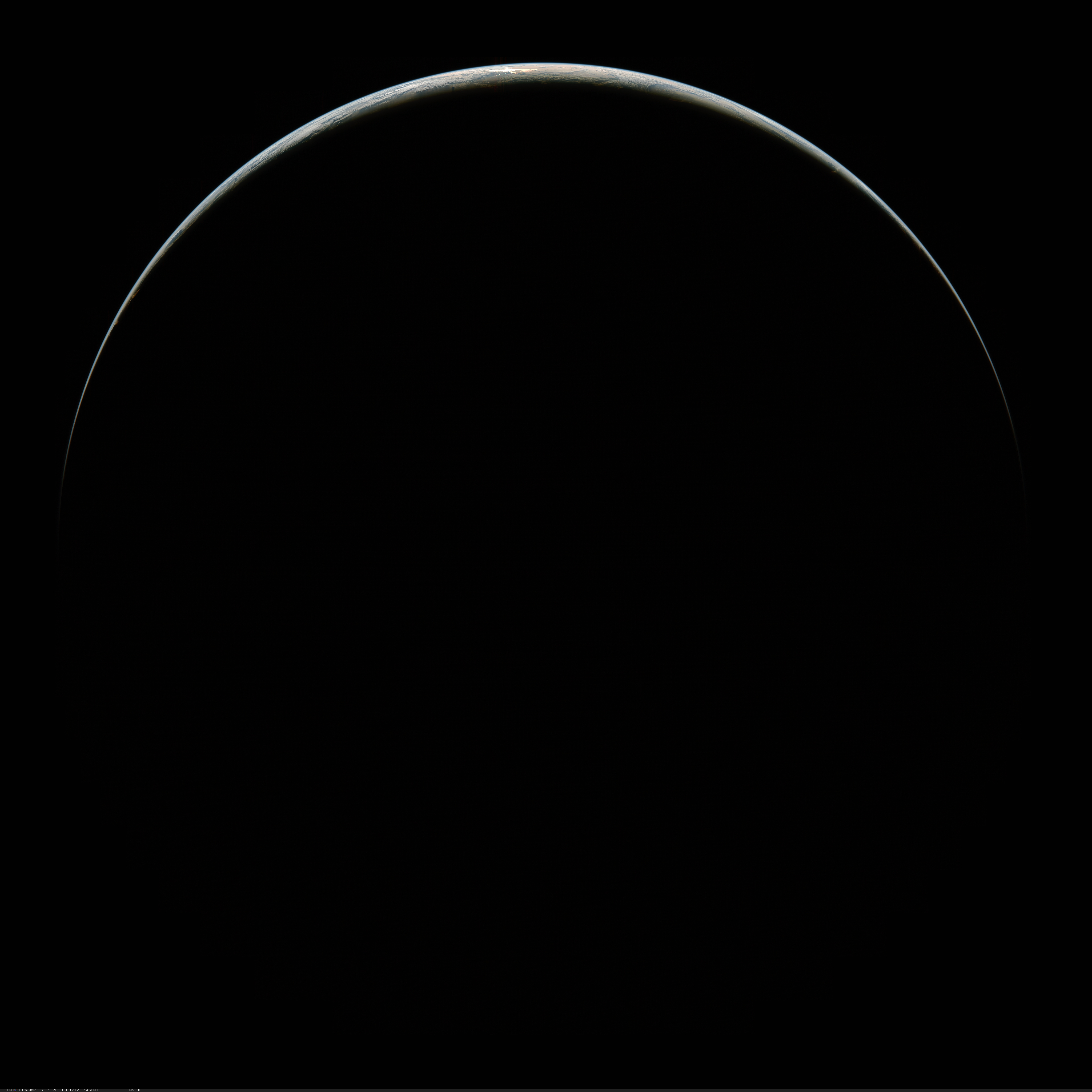 The earth at 14:30 UTC (23:30 JST) on June 20, 2017, right before the summer solstice.